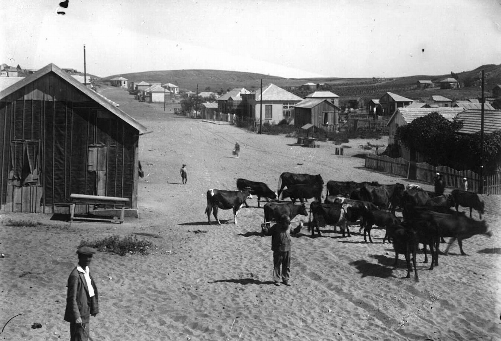 Bnei Brak.